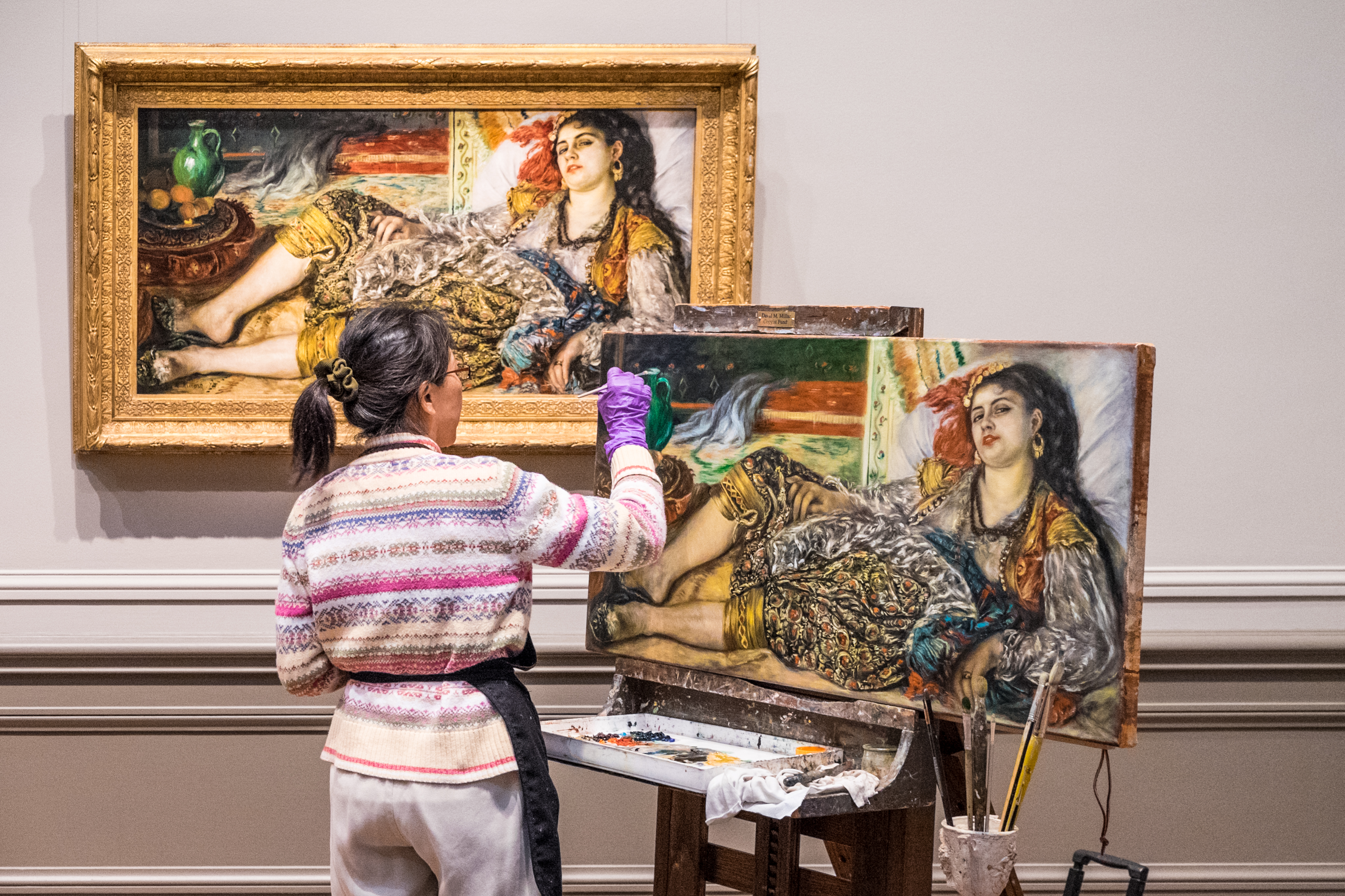 National Gallery of Art